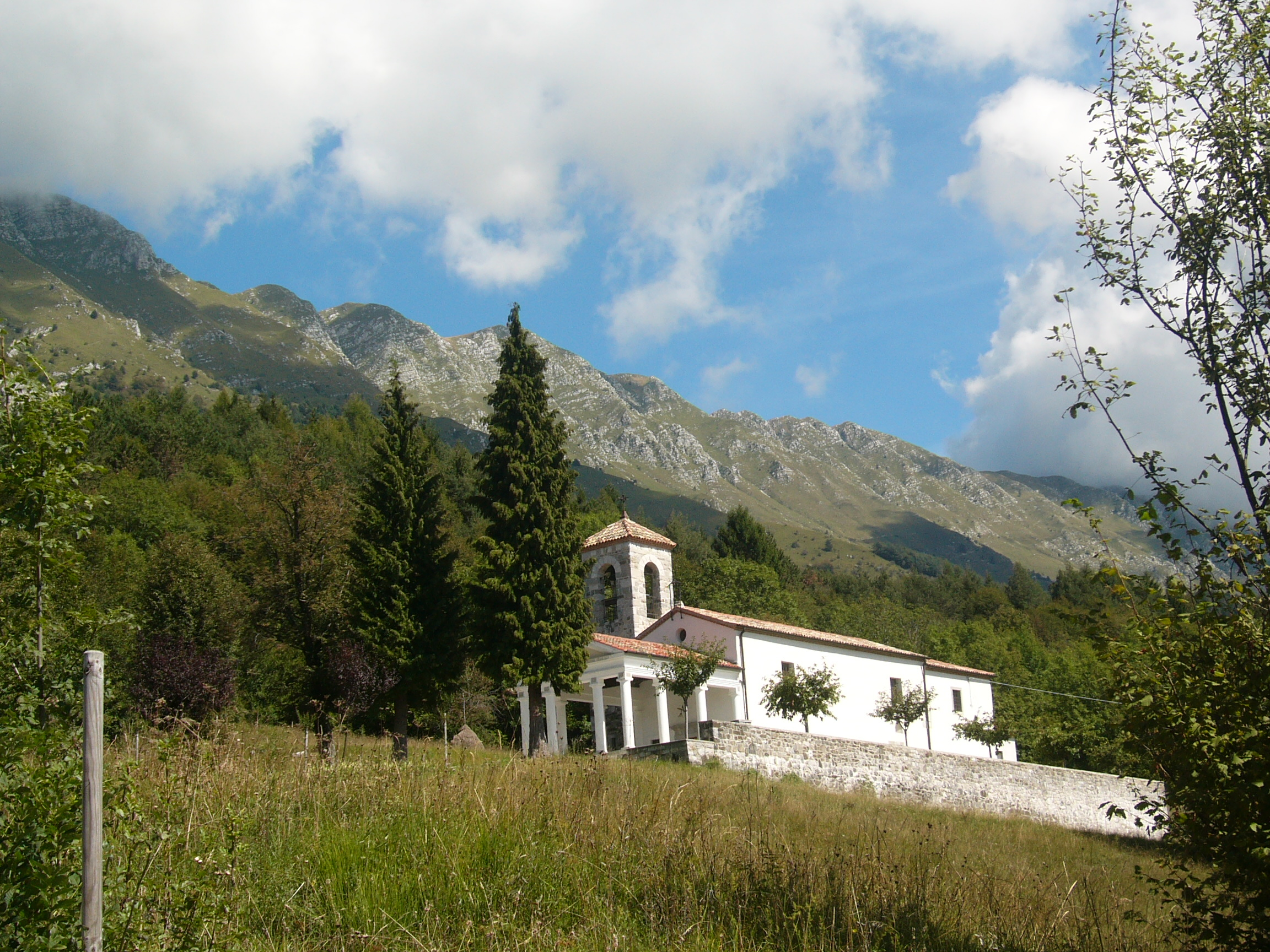 Monteaperta (Udine), Church of the Holy Trinity